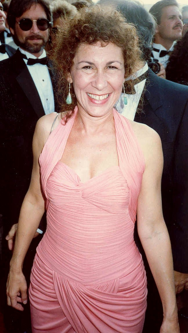 Photo of Rhea Perlman at the Emmy Awards.